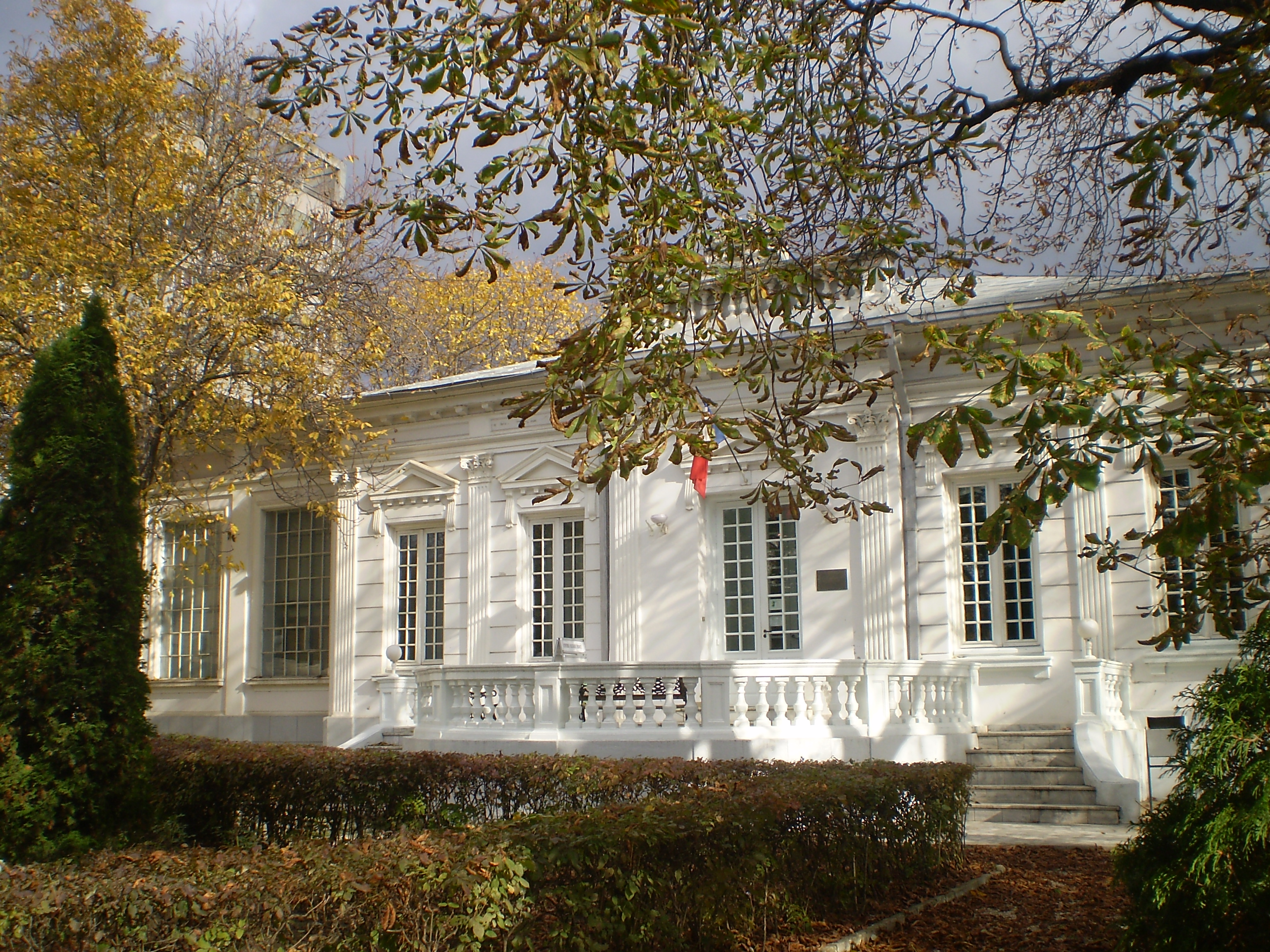 French Cultural Center in Iasi , Iaşi ,Romania